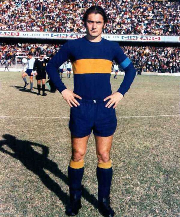 Boca Juniors player, Rubén Suñé.